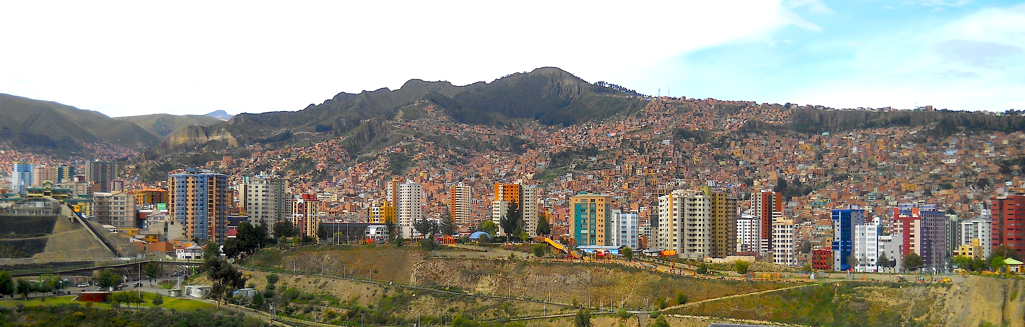 Panoramic skyine of La Paz, Bolivia